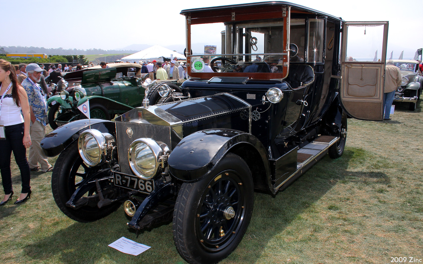 Rolls-Royce 40/50 h.p. "Silver Ghost" Landaulet by Barker (1913) at the Pebble Beach Concours dElegance, Aug 16, 2009